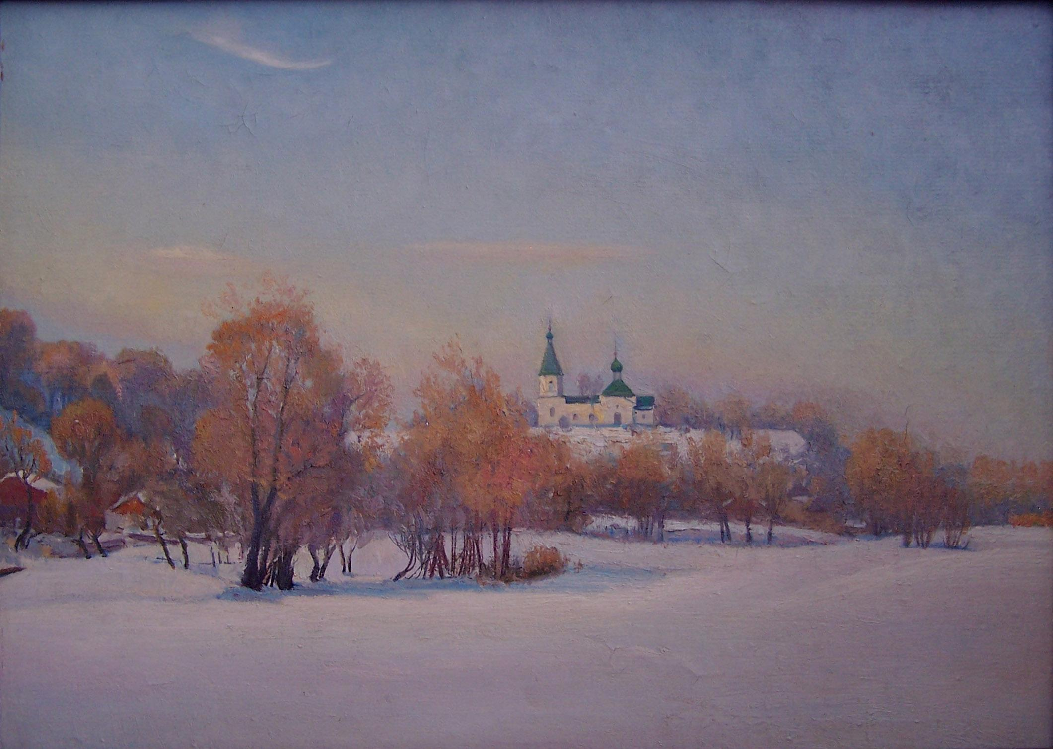 1986 Georgi F. Ottschenaschko 'Warm evening'